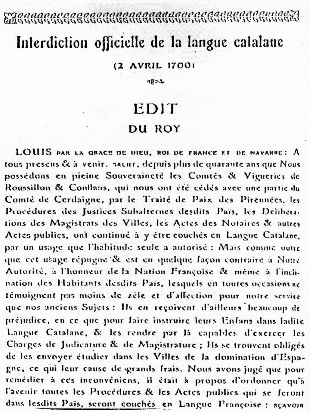 A 1700 decree by Louis XIV (the Sun King) that forbade the use of Catalan in French-controlled part of Catalonia (Northern Catalonia).